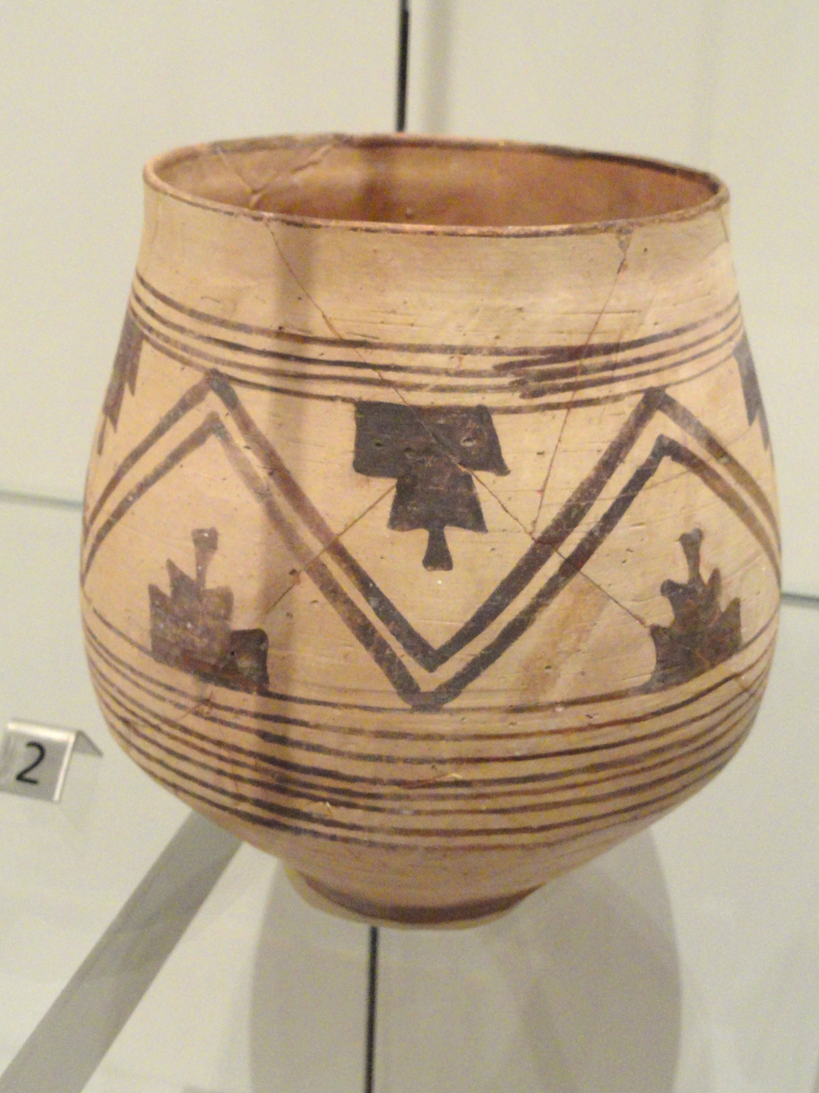 Exhibit in the Royal Ontario Museum, Toronto, Ontario, Canada. This exhibit is old enough so that it is in the public domain, and photography was permitted in the museum. I took this photograph and release it into the public domain.